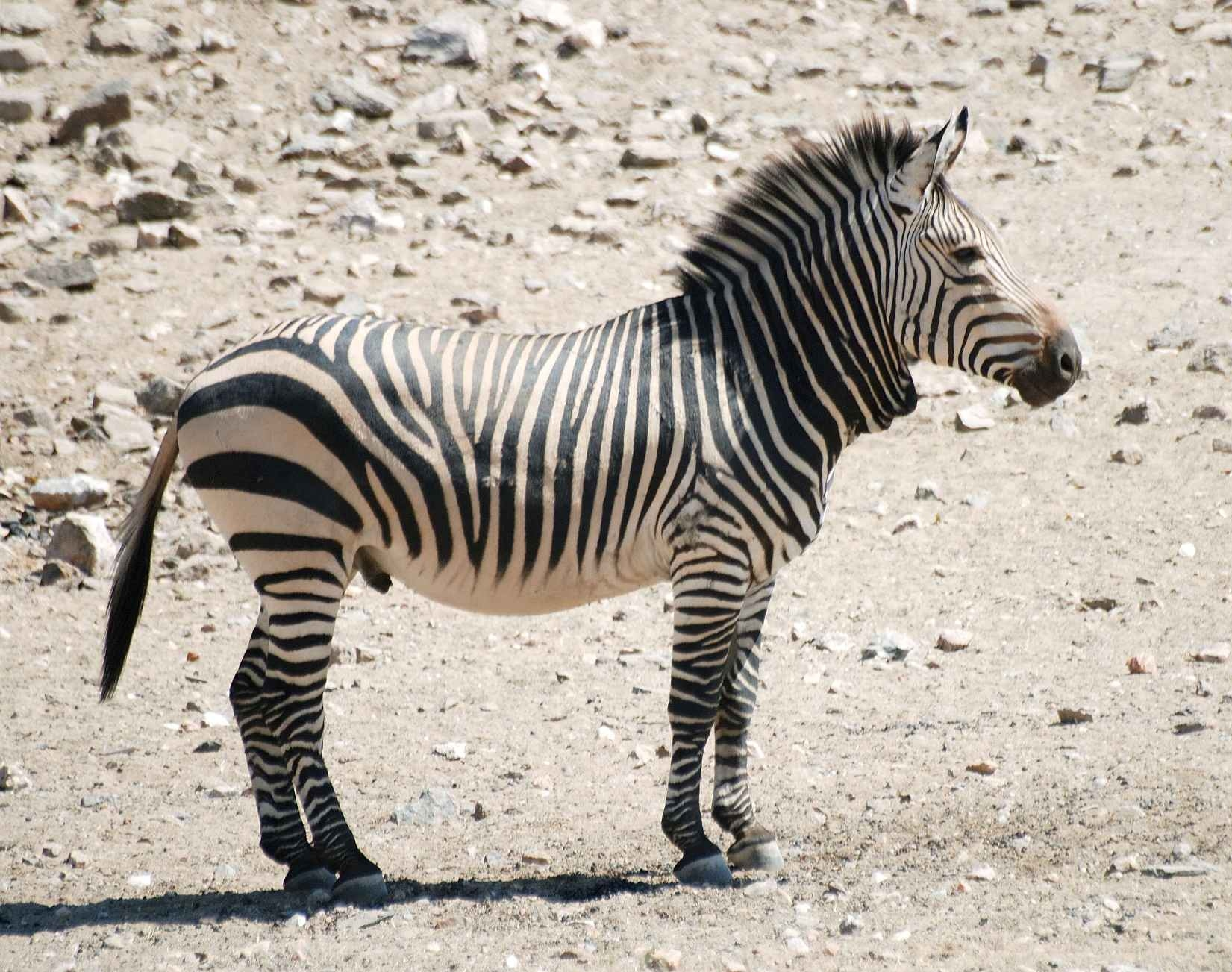 Hartmann zebra, Hobatere Private Reserve, west of Etosha National Park